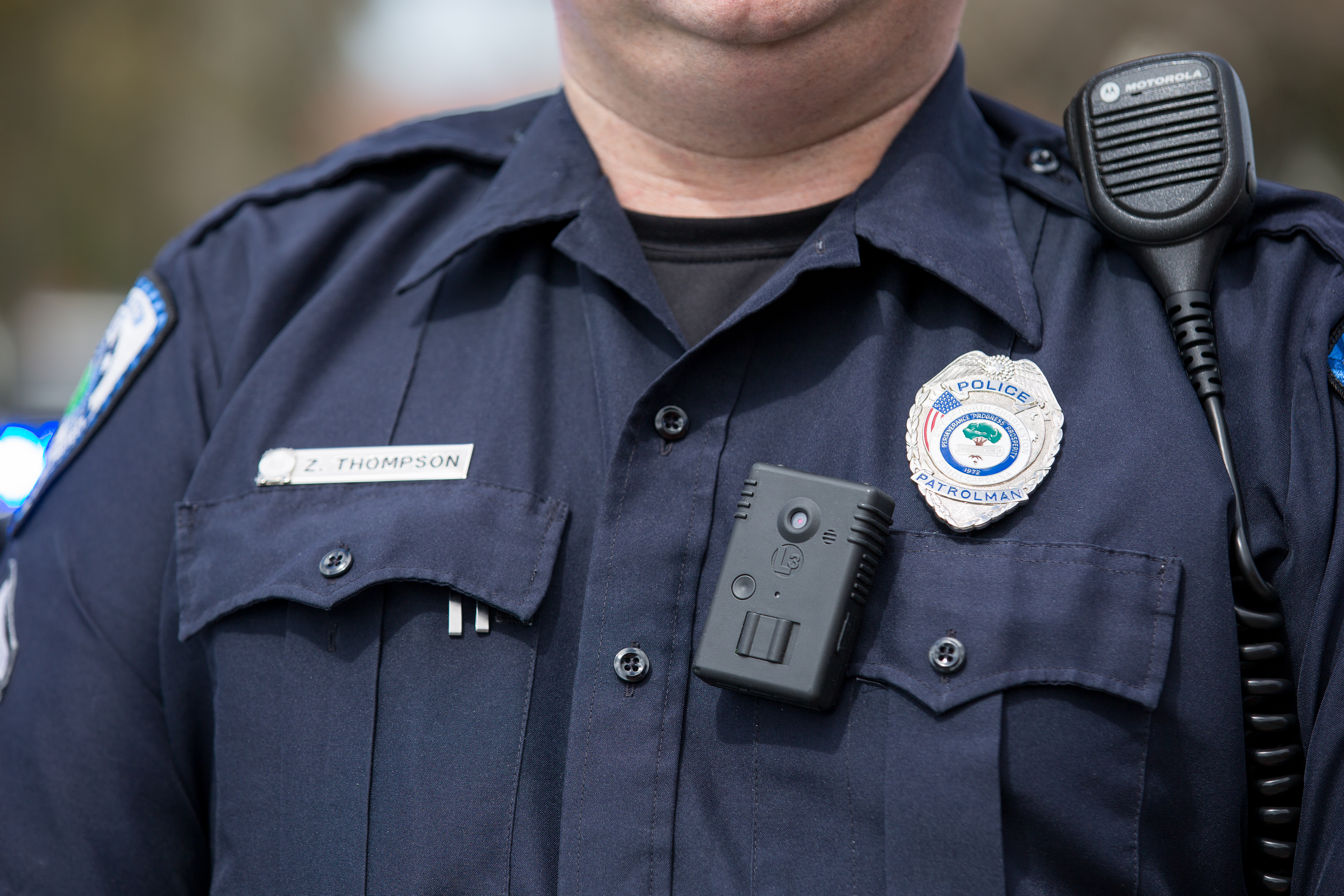 Policeman with body-worn videocamera (body-cam) in North Charleston (South Carolina, USA)